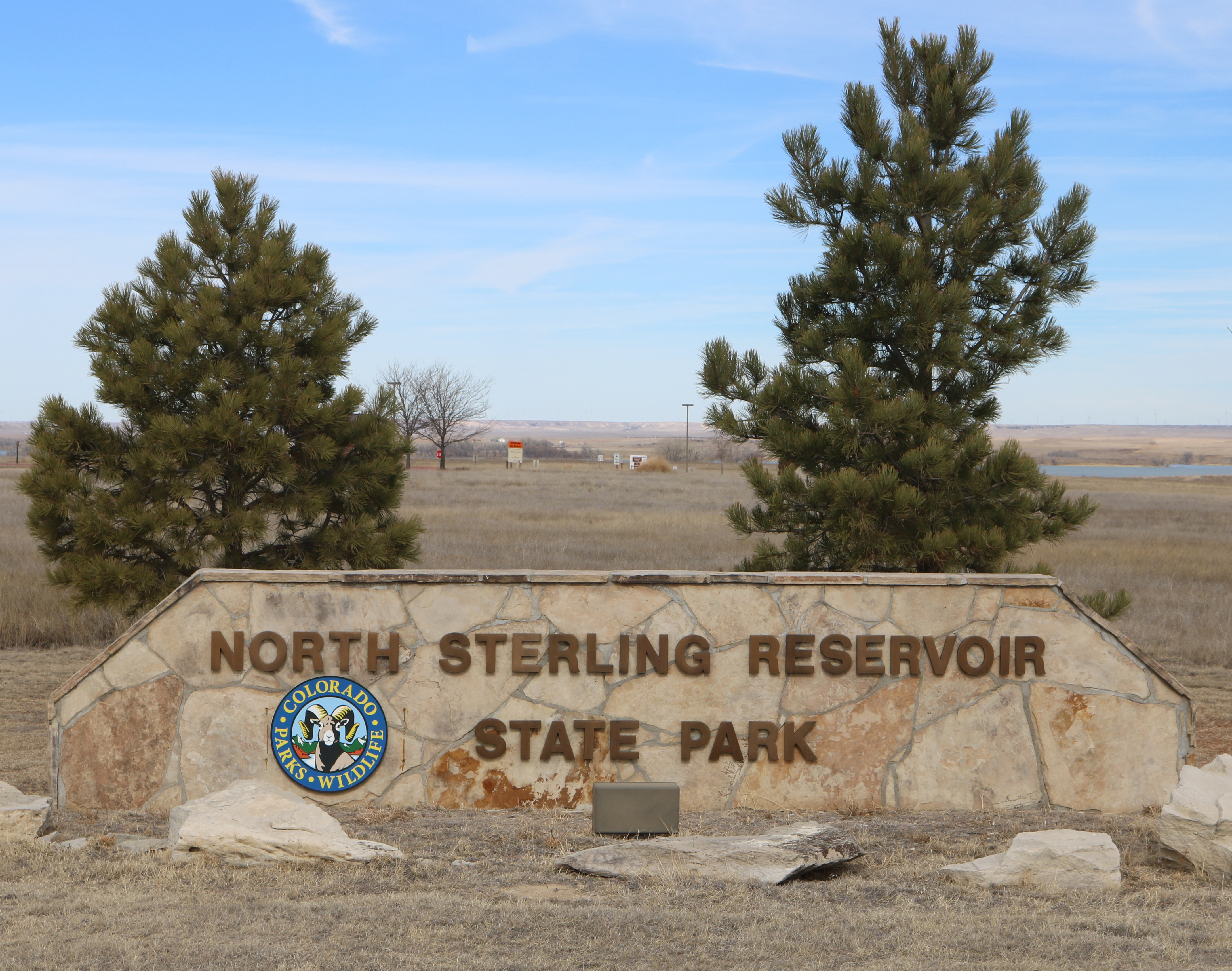 A sign for North Sterling State Park in Logan County, Colorado. The sign says, "North Sterling Reservoir State Park."